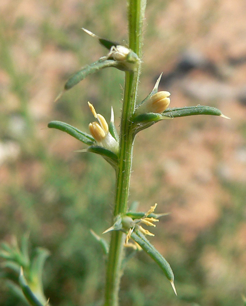 Kali tragus (Syn. Salsola tragus) near Ash Creek Spring, Calico Basin, Spring Mountains, southern Nevada (elev. about 1150 m)